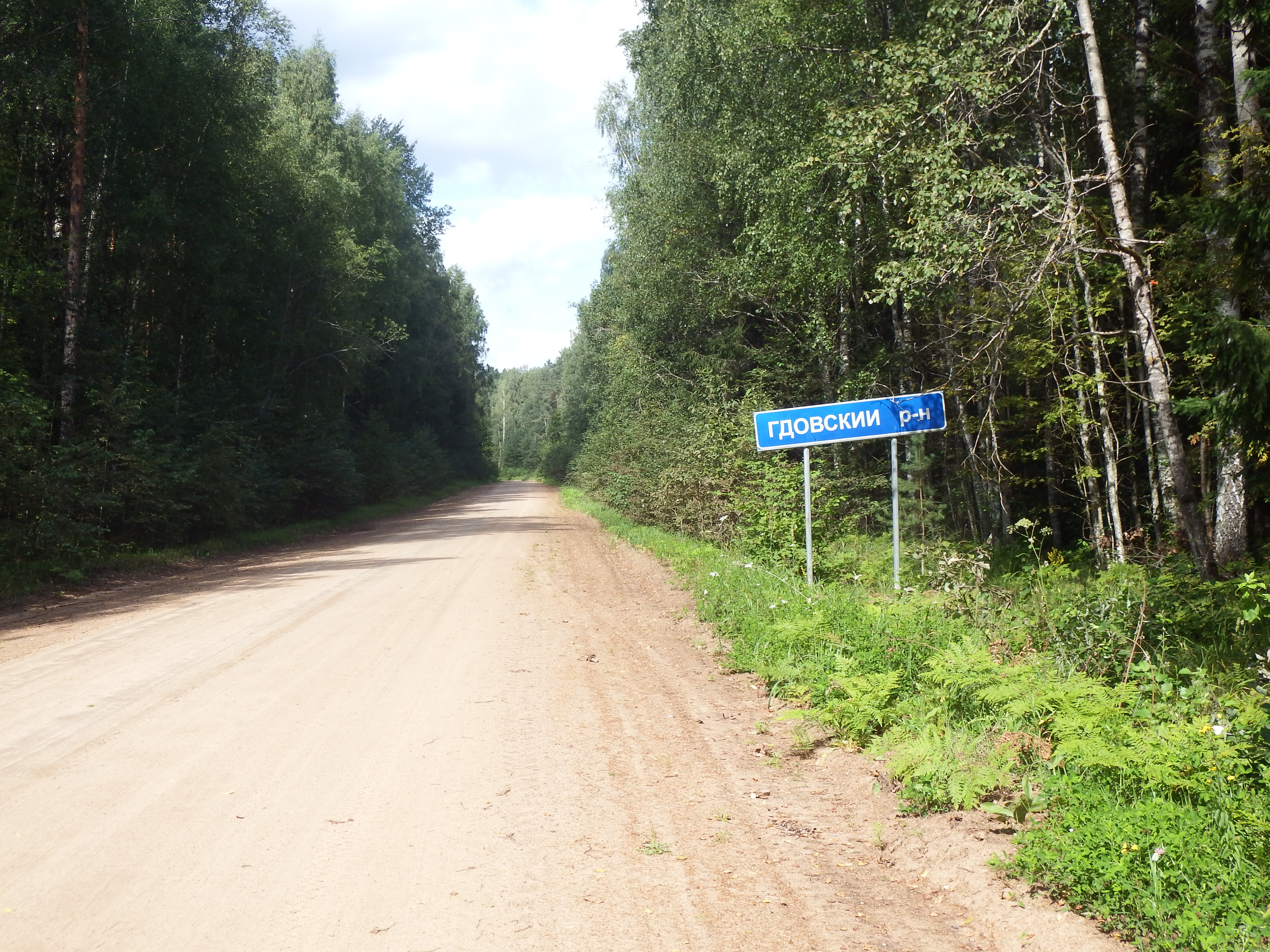 Pskov region, Gdov district, boundary with Pliussa ditrict